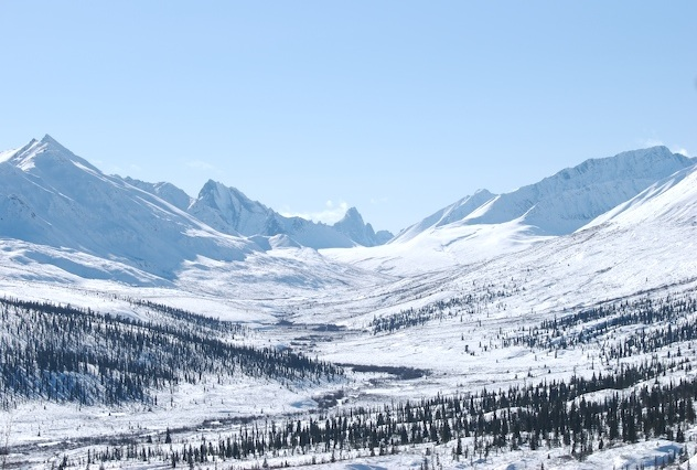 Tombstone Mountains, Yukon Territory, (near Dawson City); March 2008